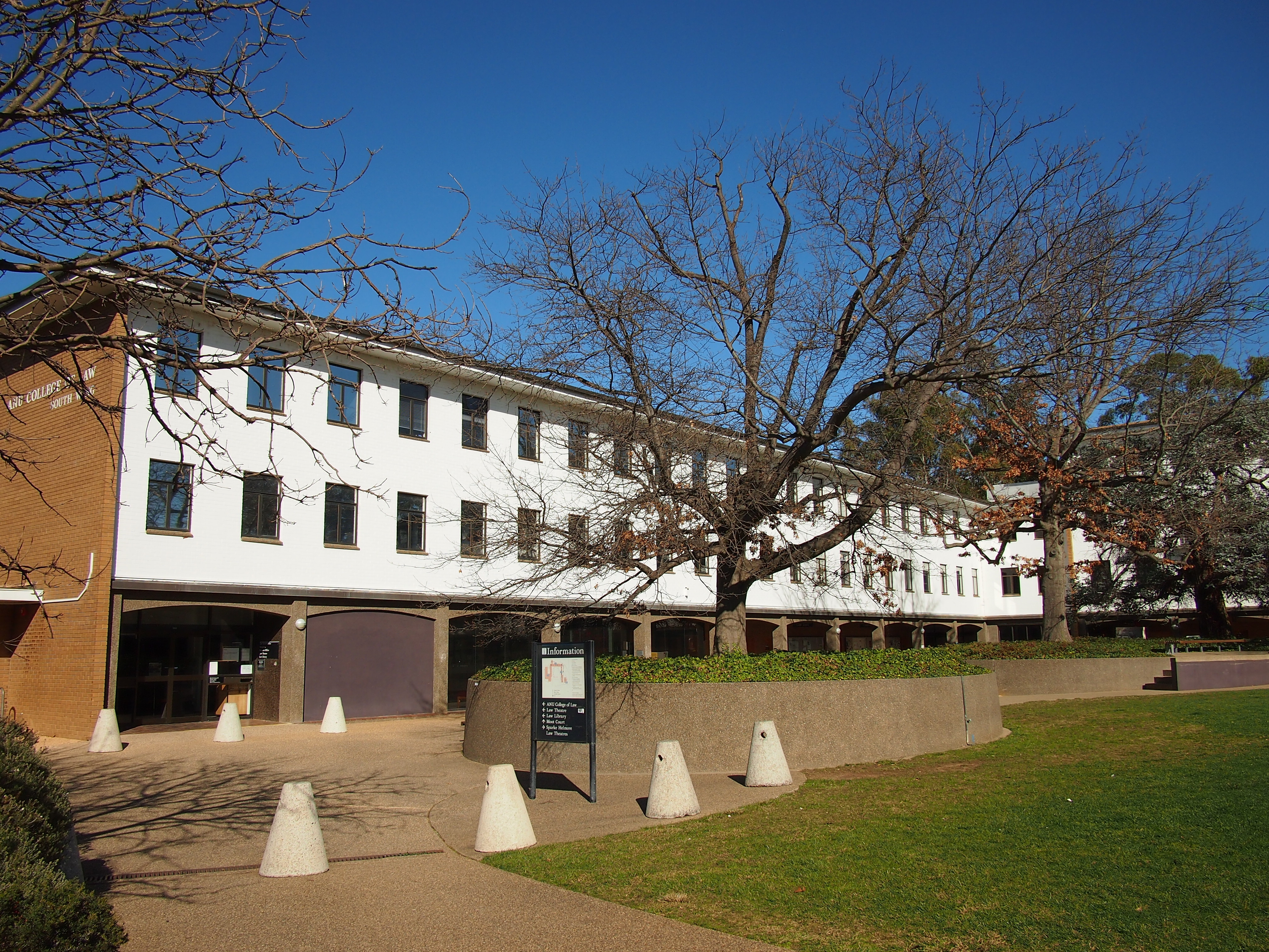 The South Wing of the Australian National University's College of Law